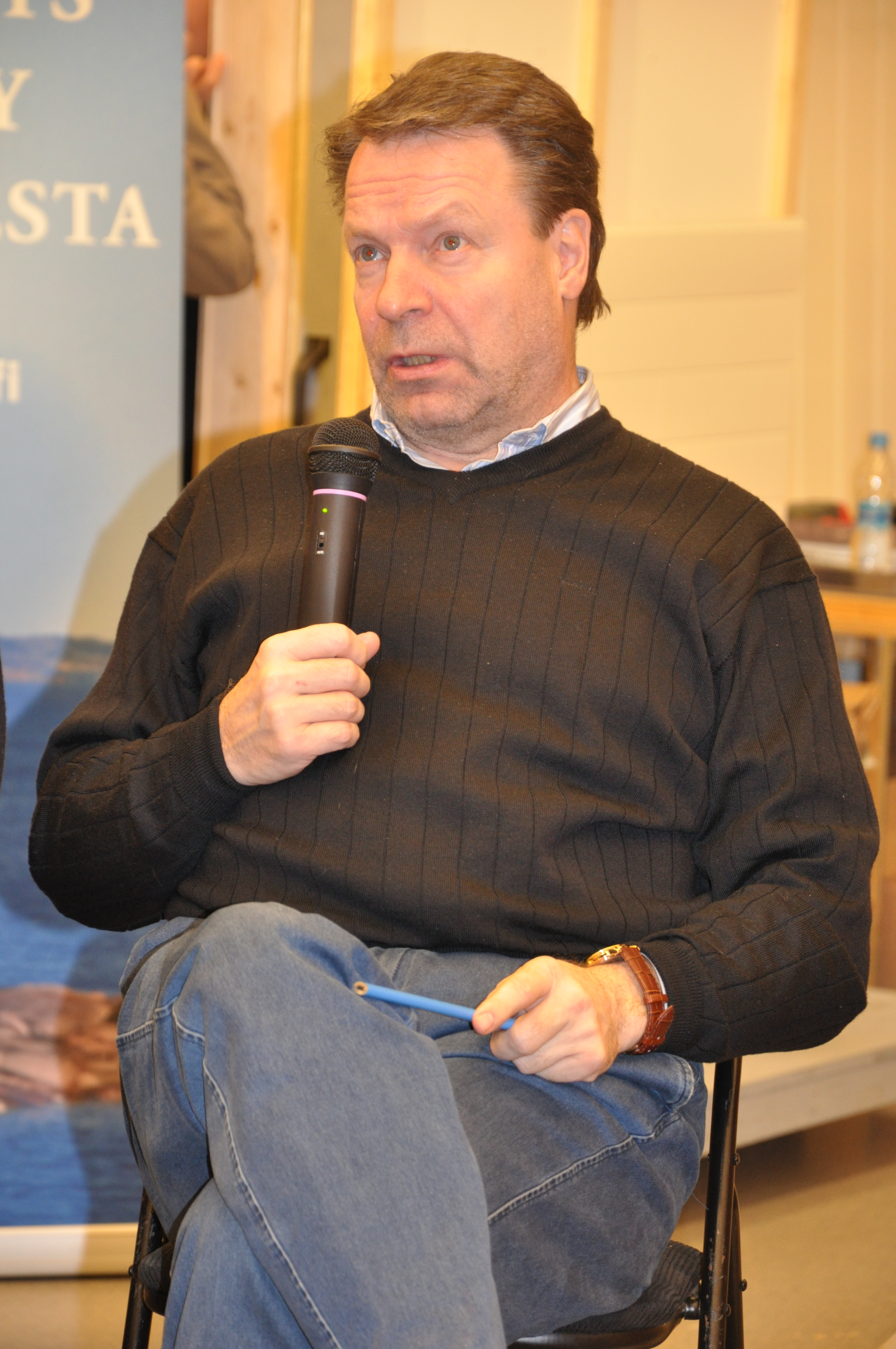 Member of the Finnish Parliament and former Minister Ilkka Kanerva speaking at the Rakentaminen & Asuminen 2009 Fair in Turku, Finland.